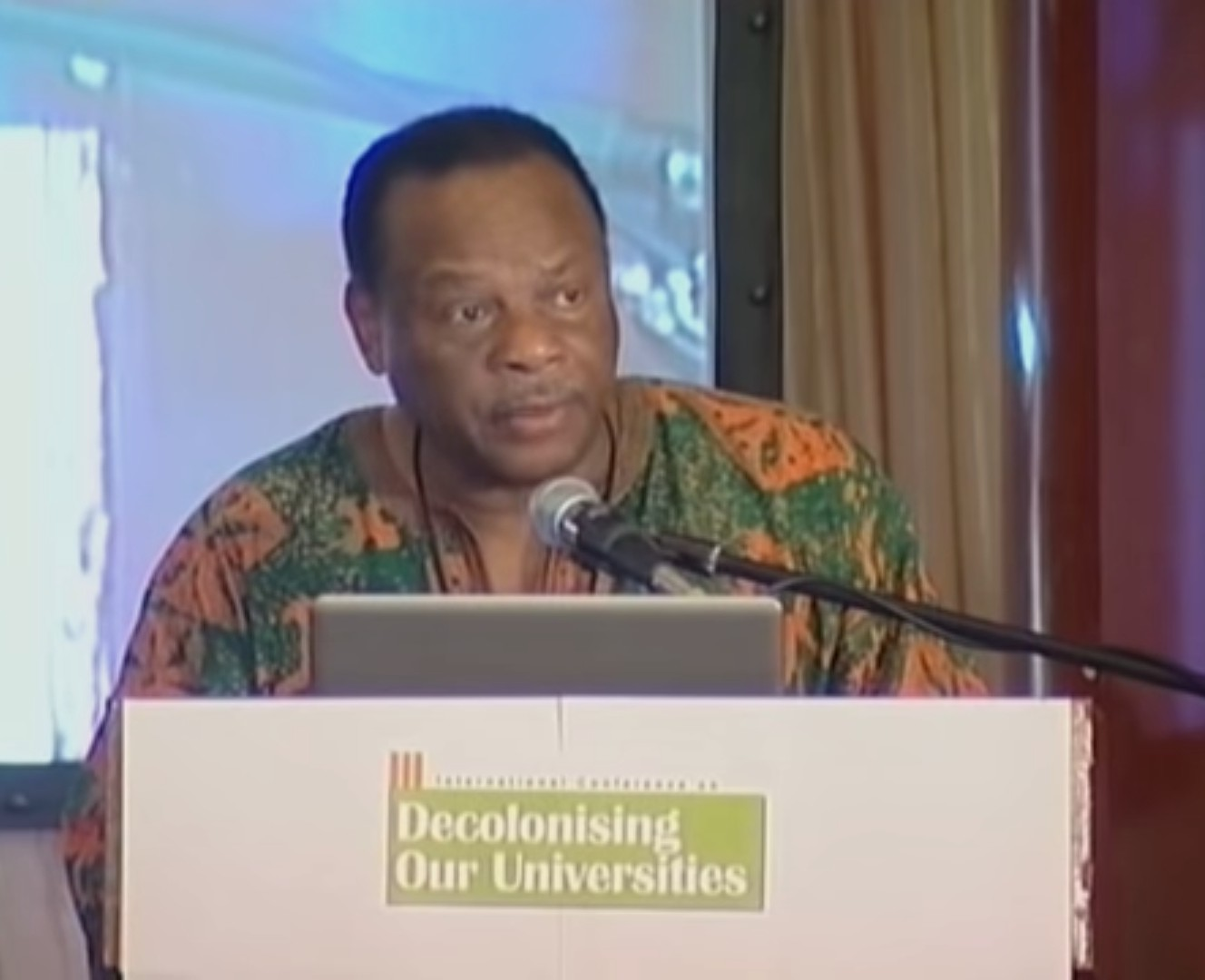 Philosophers from the United States